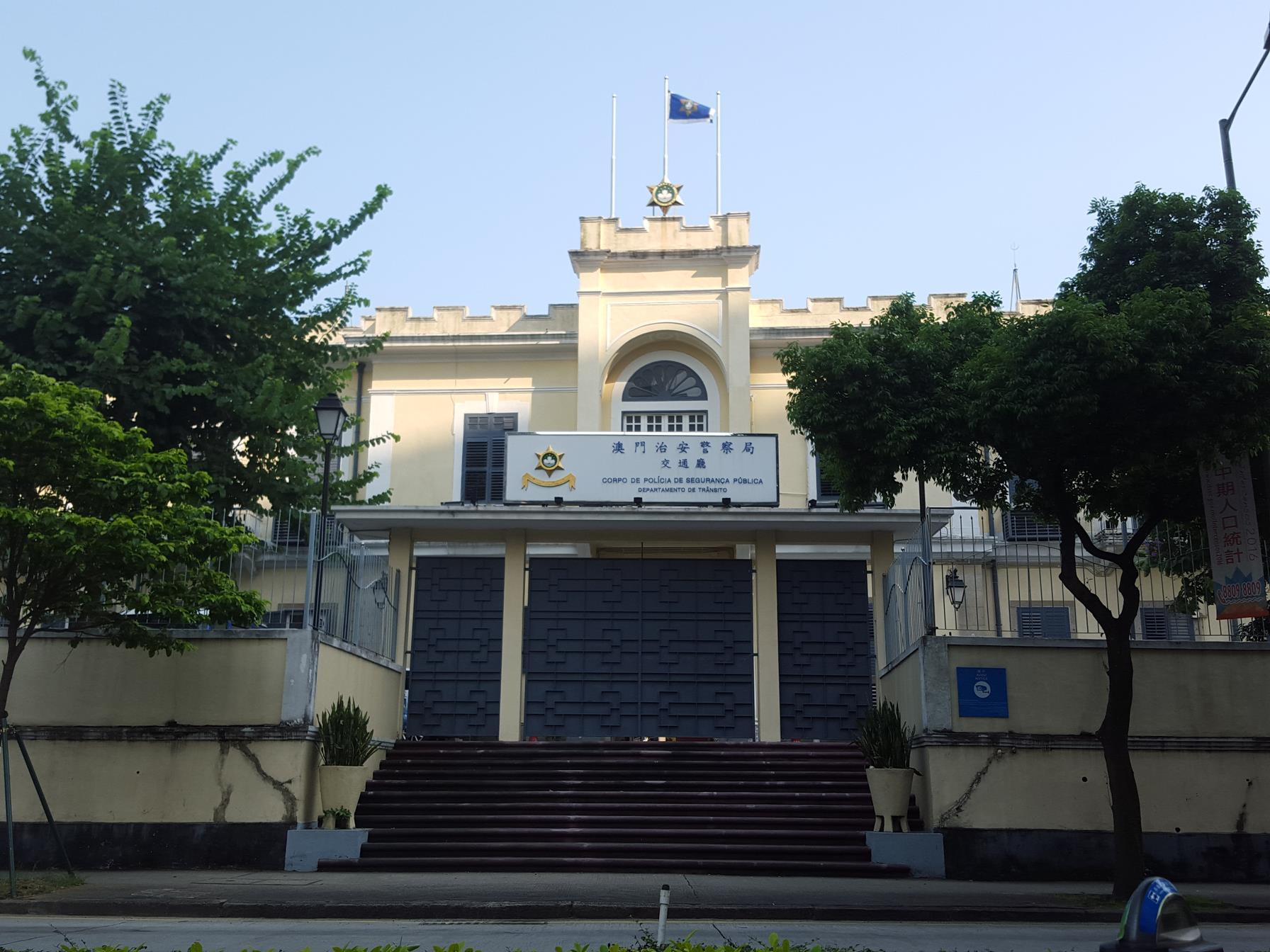 Macau Traffic Police Office